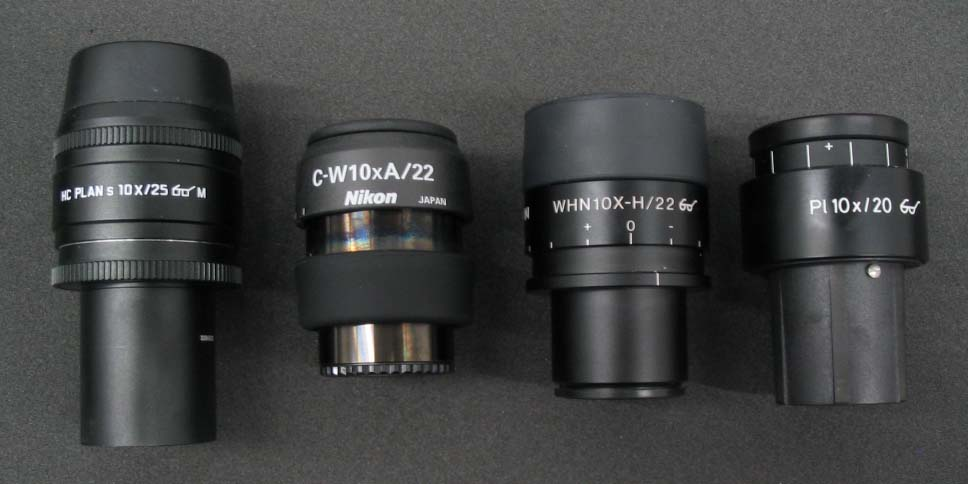 High quality microscopy eyepieces from Leica, Nikon, Olympus and Zeiss. Apart from the magnification (10x for all), the field-of-view number is given (25, 22 or 20).